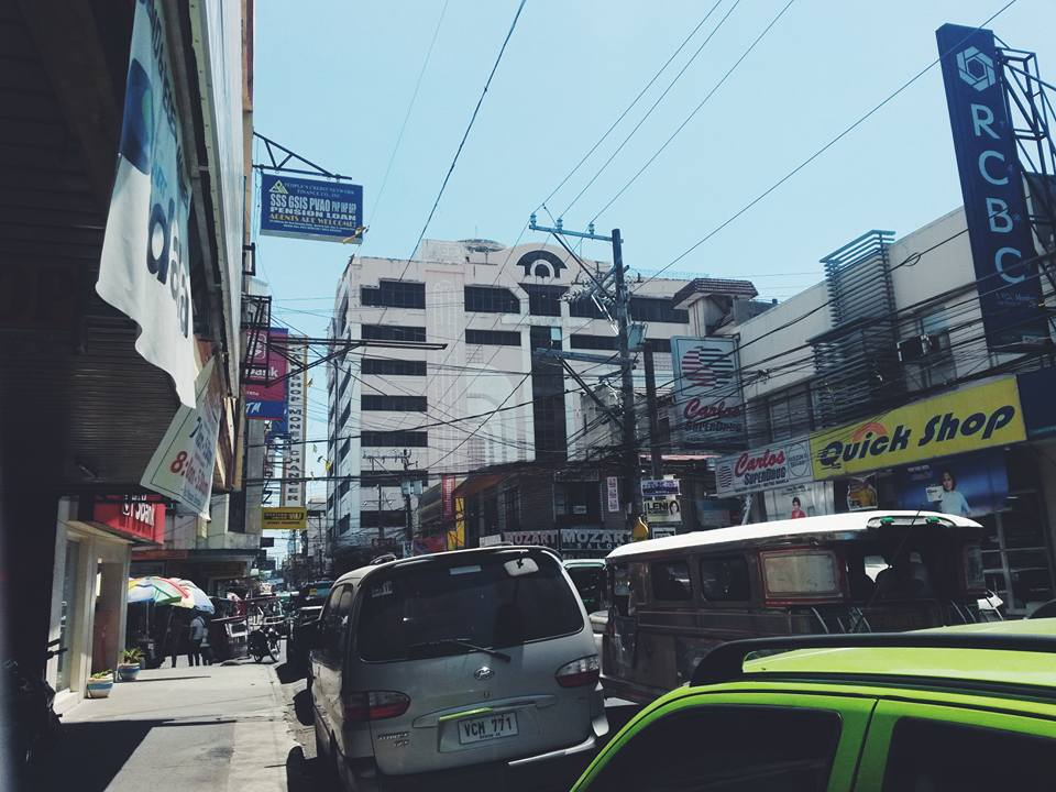 One of the busiest streets in Lucena City.